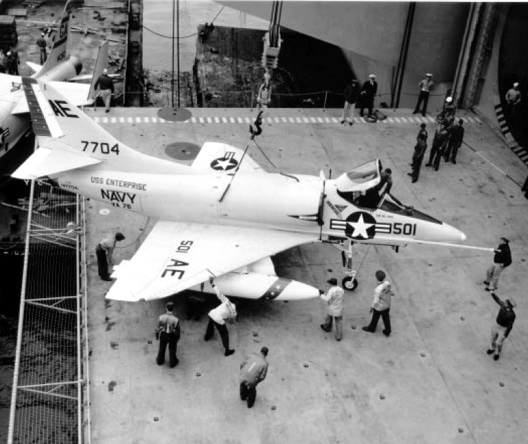 A U.S. Navy Douglas A-4C Skyhawk (BuNo 147704) from Attack Squadron VA-76 "Spirits" is loaded aboard the aircraft carrier USS Enterprise (CVAN-65). VA-76 was assigned to Carrier Air Group 6 (CVG-6) aboard the Big E for a deployment to the Mediterranean Sea from 6 February to 4 September 1963. The A-4C 147704 stayed with VA-76 and the Big E but was lost on 2 January 1966 when it crashed on the slope of a mountainside in thick fog at Duc Pho, Quang Ngai Province, South Vietnam. The pilot was killed.